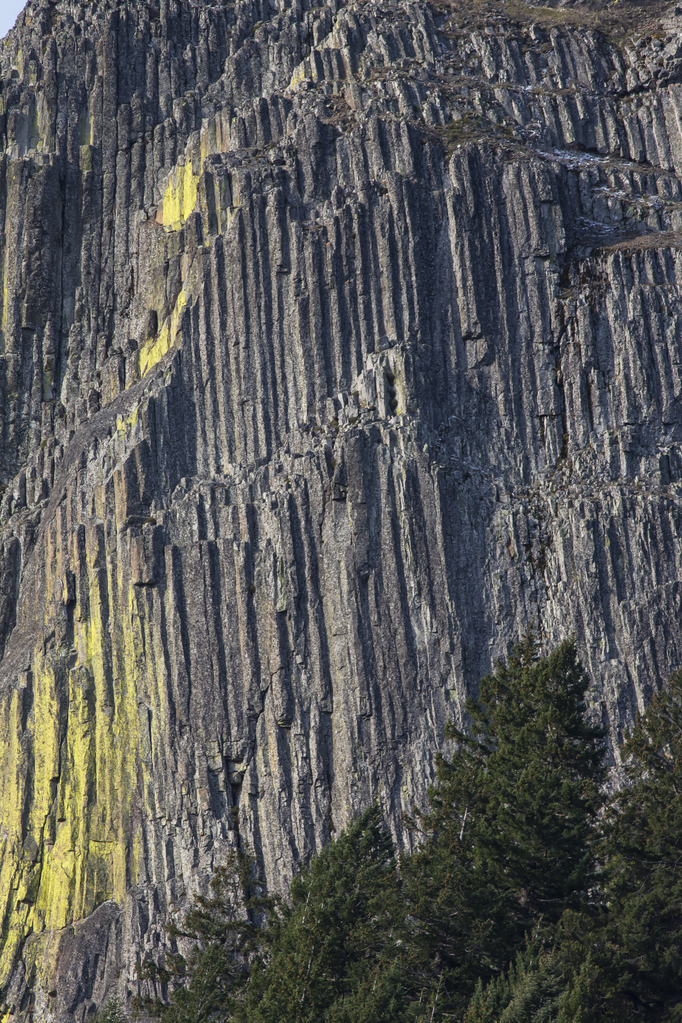 Located at the crossroads of the Cascade, Klamath, and Siskiyou mountain ranges, scientists have long recognized the outstanding ecological values of the Cascade-Siskiyou National Monument. The convergence of three geologically distinct mountain ranges resulted in an area with remarkable biological diversity. The Pacific Crest National Scenic Trail meanders 19 miles through the monument, offering challenging hikes with stunning views. Photo by Bob Wick, BLM